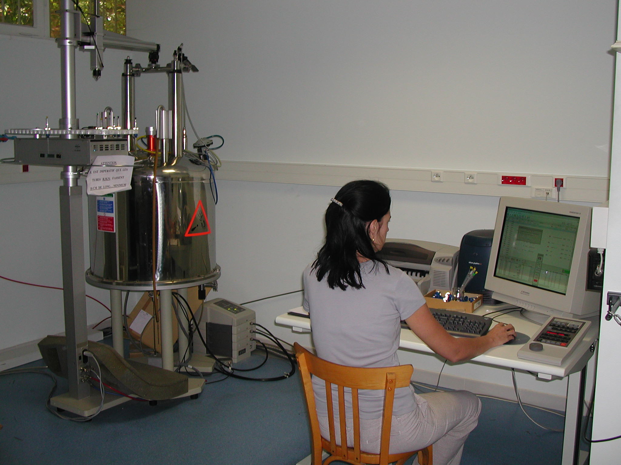 Nuclear Magnetic Resonance Spectrometer 200MHz